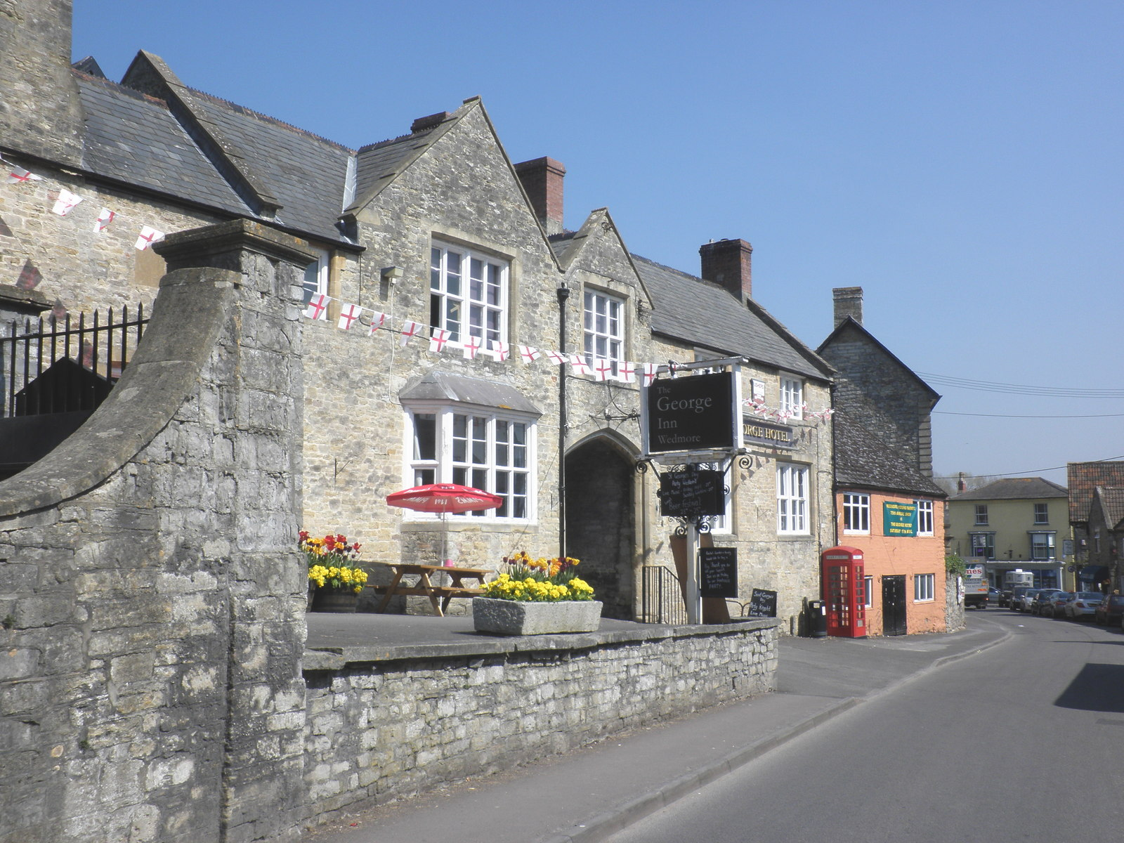 The George Inn and Hotel, Wedmore